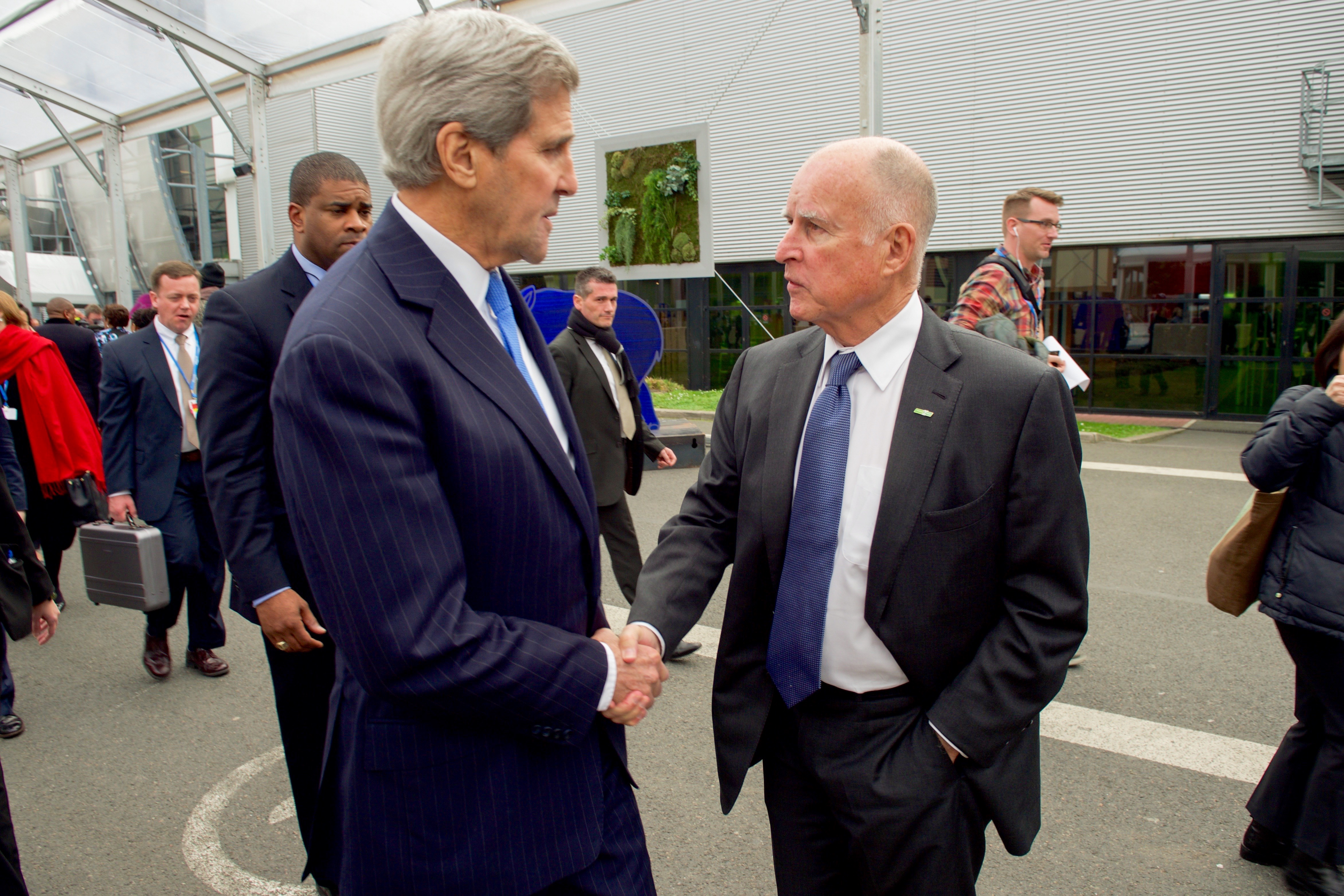 U.S. Secretary of State John Kerry greets Califronaia Gov. Jerry Brown after they cross paths at COP21 climate change summit venue at LeBourget Airport in Paris, France, on December 8, 2015. [State Department photo/ Public Domain]